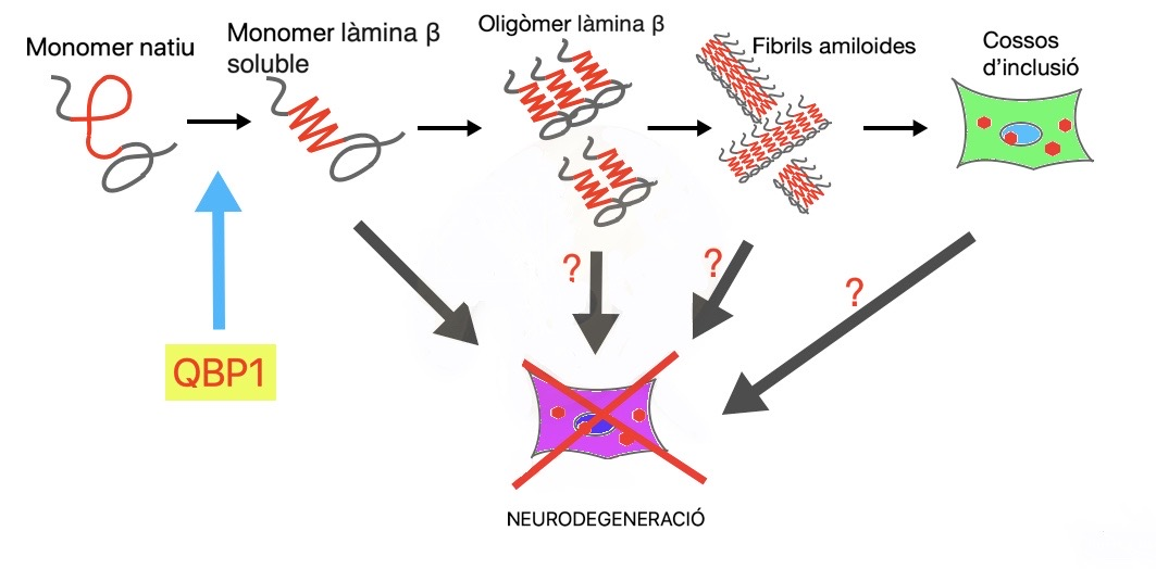 inhibition of the conformational transition of full-β in the expanded polix polymer monomer by QBP1 peptide.